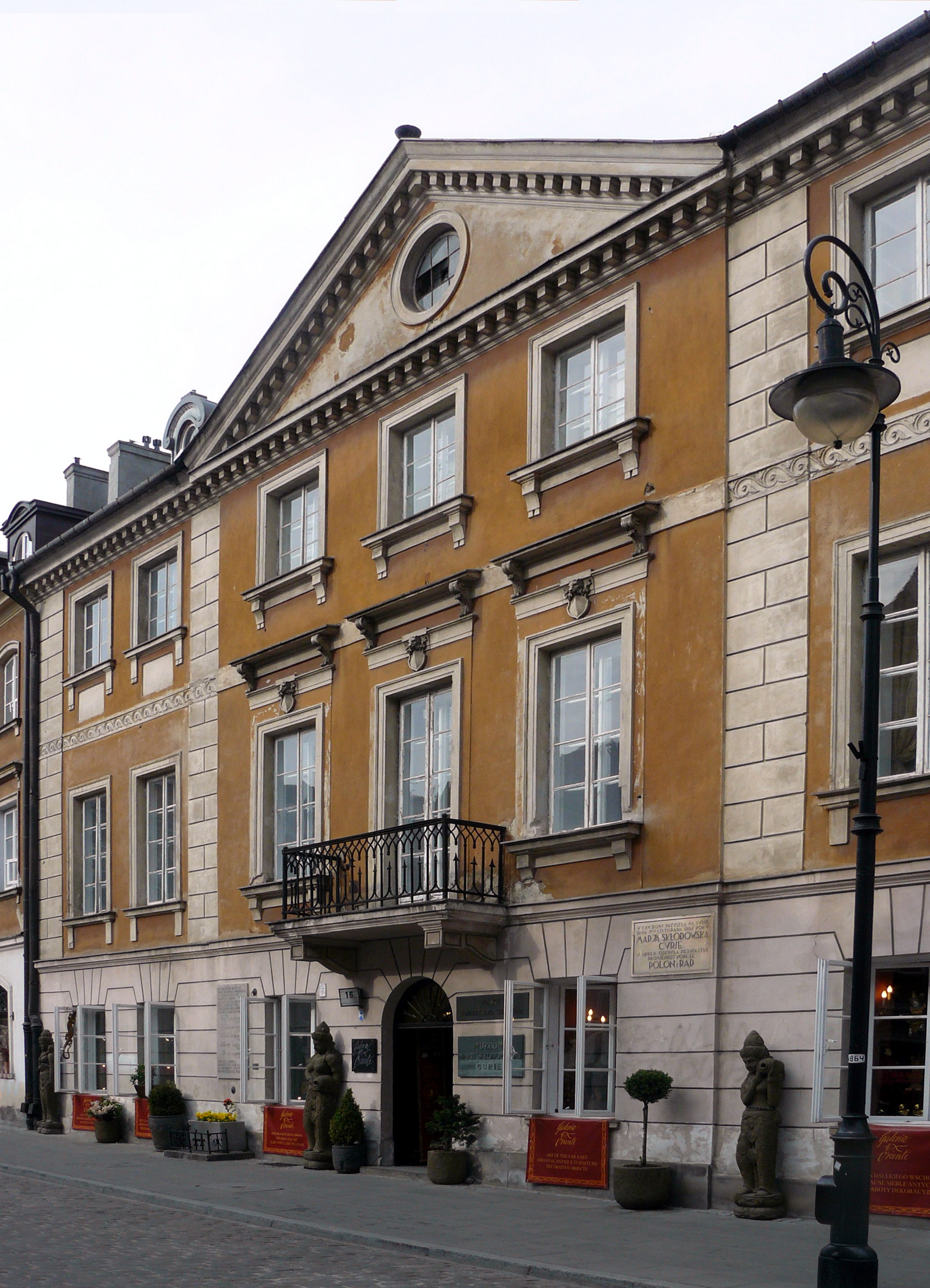 Marie Curie‘s birthplace in Warsaw, Poland